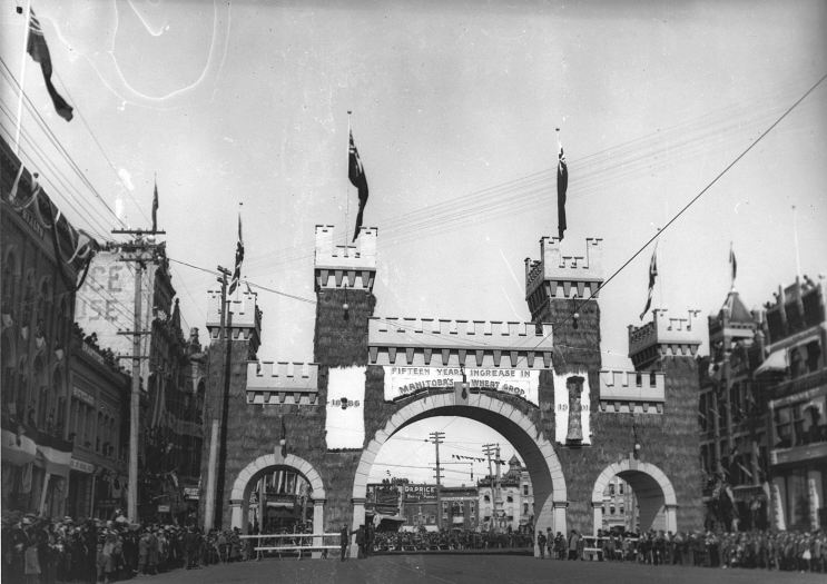 Royal arch for visit of Duke and Duchess of Cornwall and York (later, King George V and Queen Mary). Winnipeg, Canada